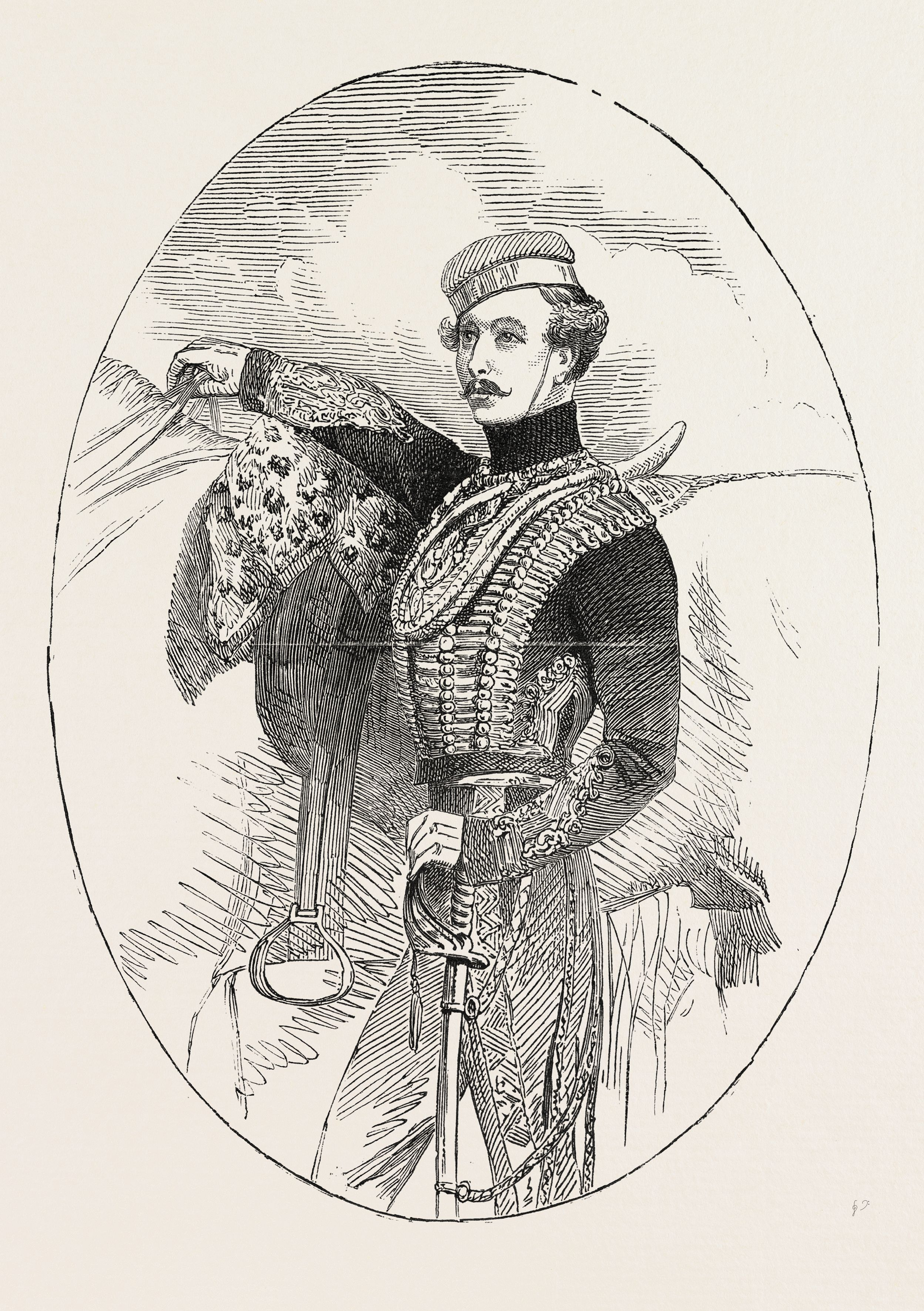 A portrait of Captain Louis Nolan (also spelt "Lewis Nolan")